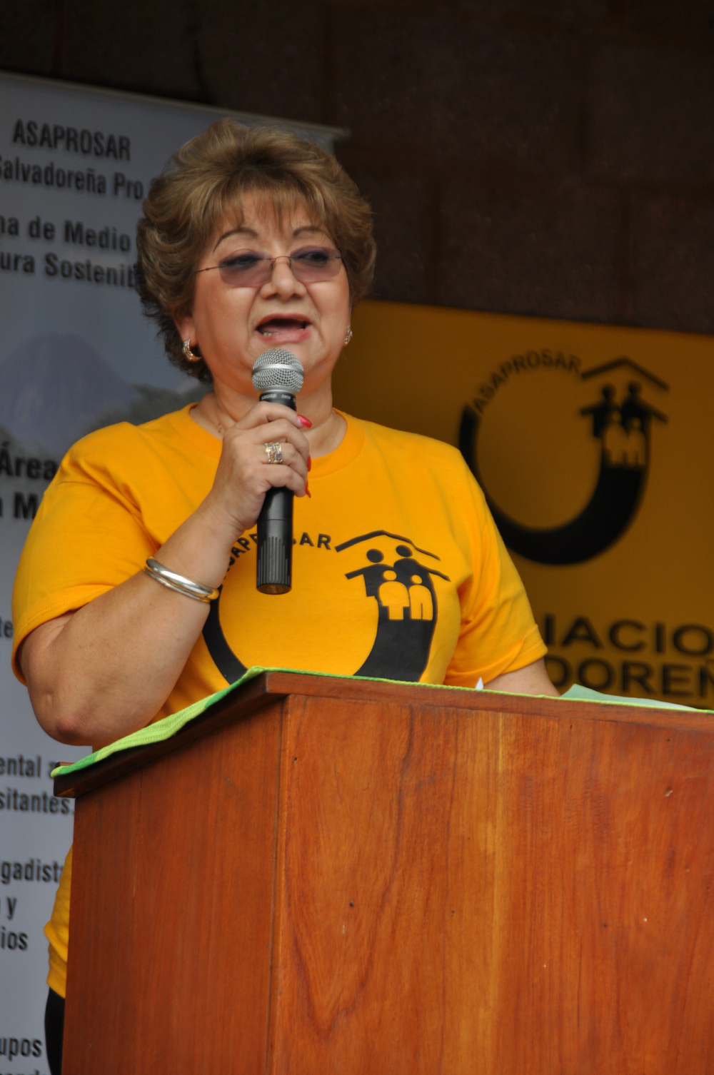 Dr. Guzman speaking at building dedication ceremony at Magdelena Protected Forest..